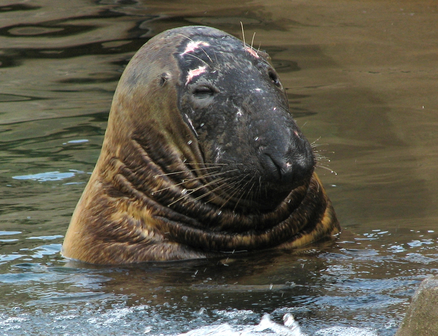 Grey Seal